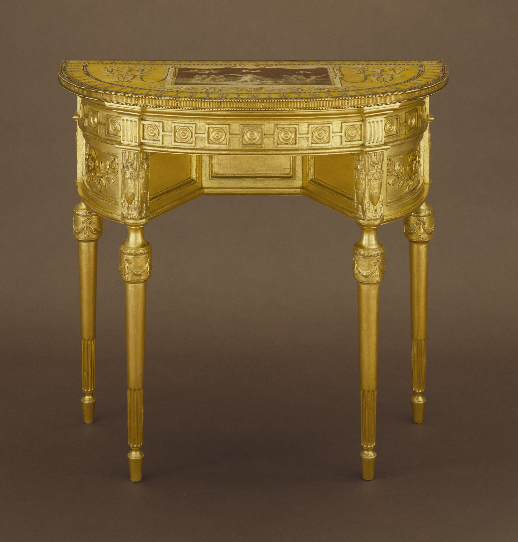 England; Italy, circa 1780 Furnishings; Furniture Wood, gilt, paint, ormolu, brass, bronze mounts with gilding 33 x 35 5/16 x 17 9/16 in. (83.82 x 89.69 x 44.61 cm) Decorative Arts Council Fund and Museum Acquisition Fund (M.83.38) Decorative Arts and Design Currently on public view: Ahmanson Building, floor 3